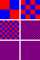 An example of dithering created by Wapcaplet in the GIMP.